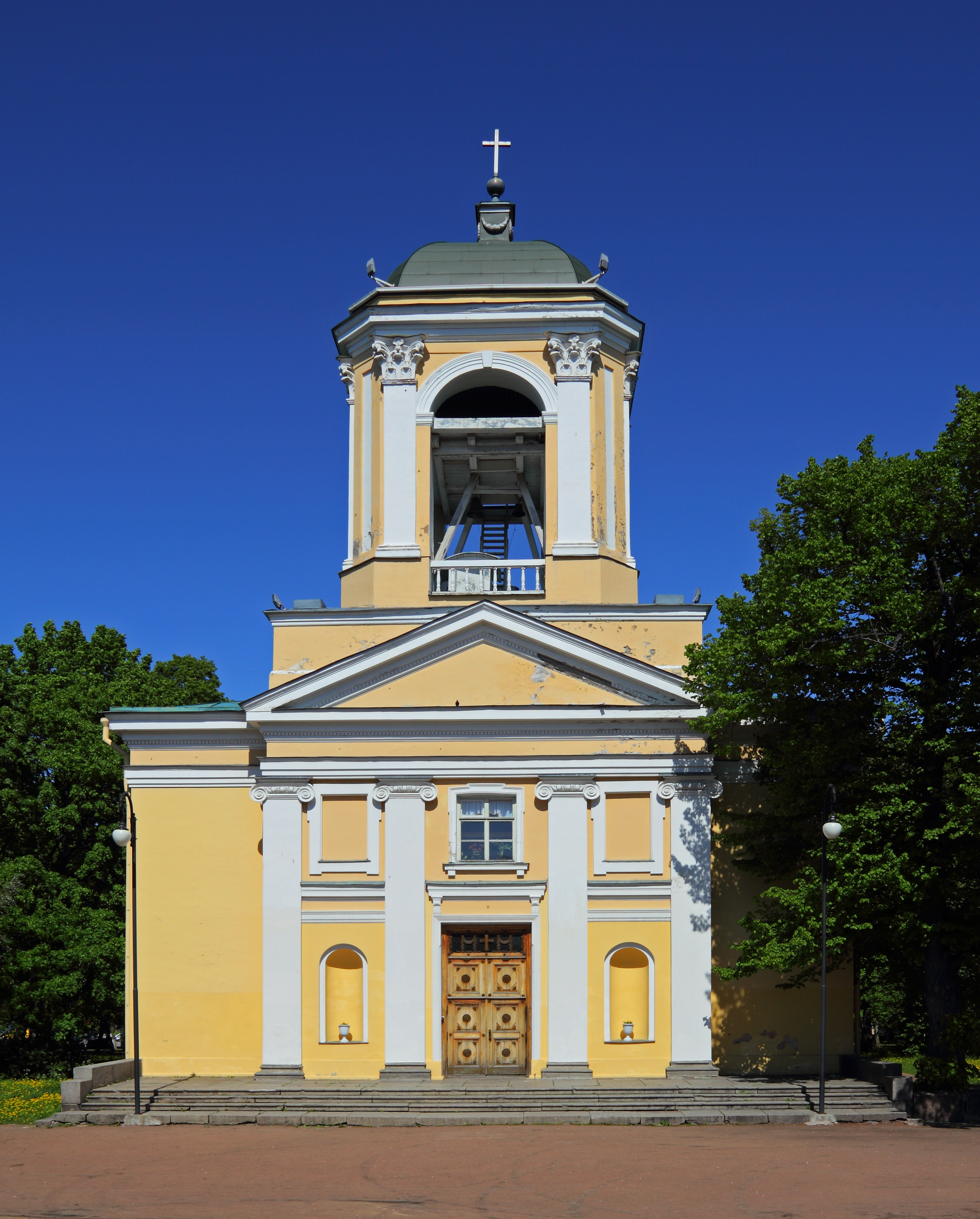 Vyborg (Viipuri), Leningrad Oblast, Russia. Lutheran Church of St. Peter and Paul.